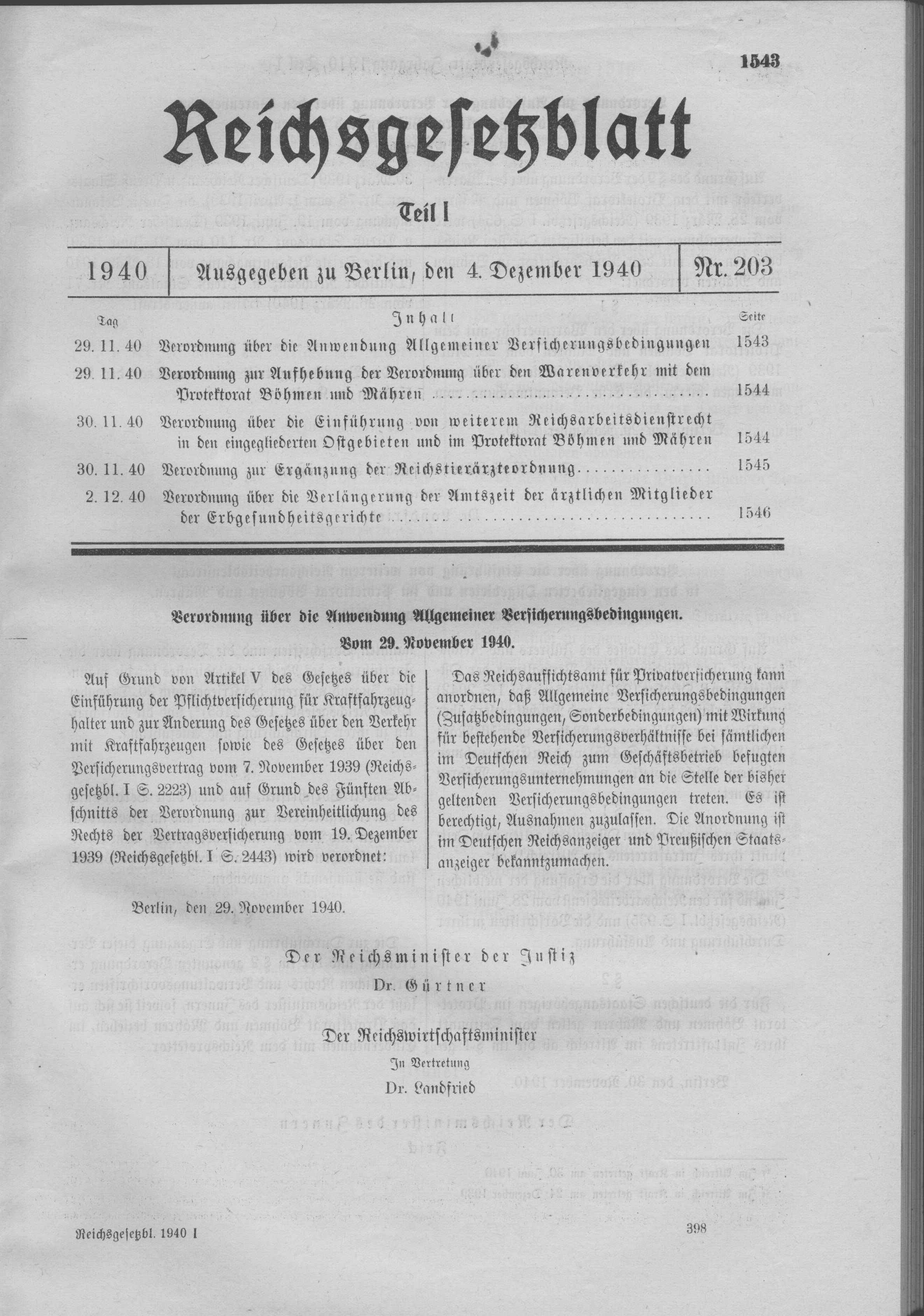 Scan from the Imperial Law Gazette of Germany, 1940, part 1